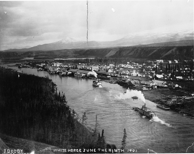 Whitehorse, Yukon, Canada, 1901